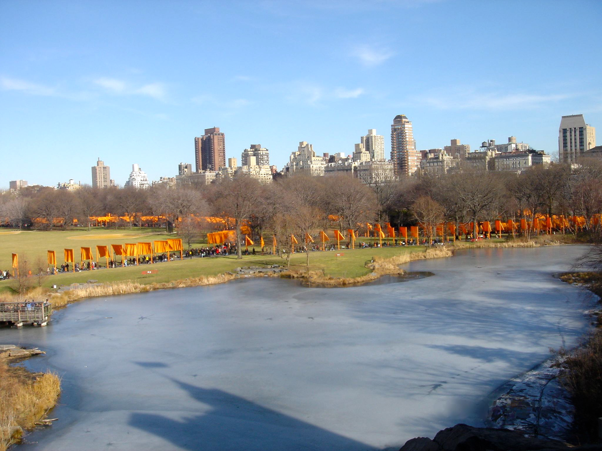 Christo's "The Gates" exhibit in Central Park.